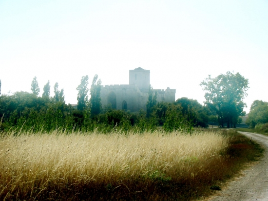 Description Église d'Esnandes(17, France) Date17 August 2006SourceOwn work by the original uploaderAuthorCvignaud Église d'Esnandes(17, France)